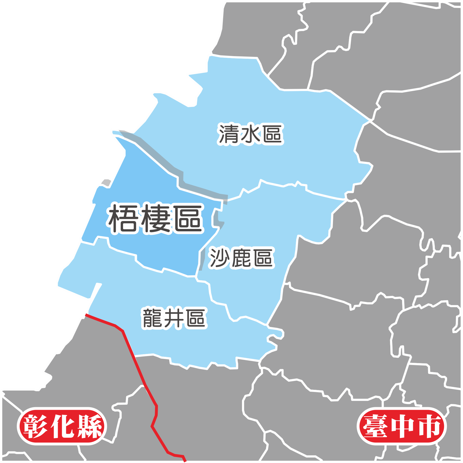 Wuqi District中文（台灣）: 臺中市梧棲區。